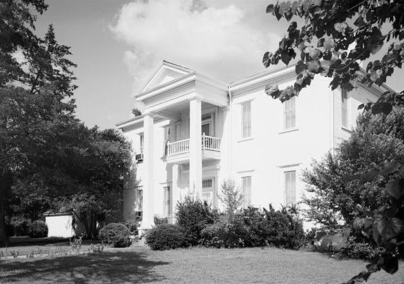 The Brick House, the childhood home of First Lady Lady Bird Johnson, a Neoclassical house in Karnack, Texas.